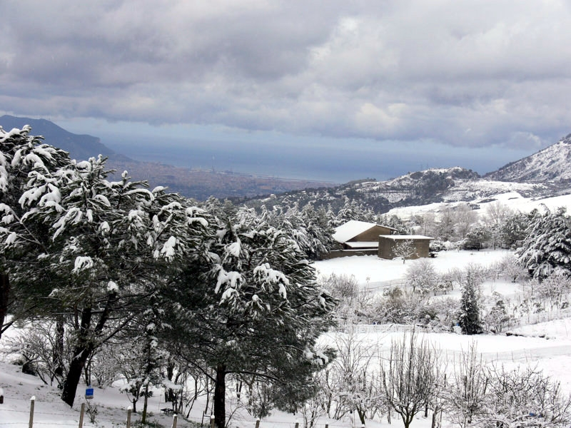 Poggio San Francesco is a charming town on Palermo. 812 meters above sea level